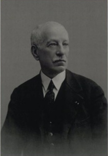 Portrait of Alfred Martineau (1859–1945), French politician, colonial administrator and professor of colonial history at the Collège de France.